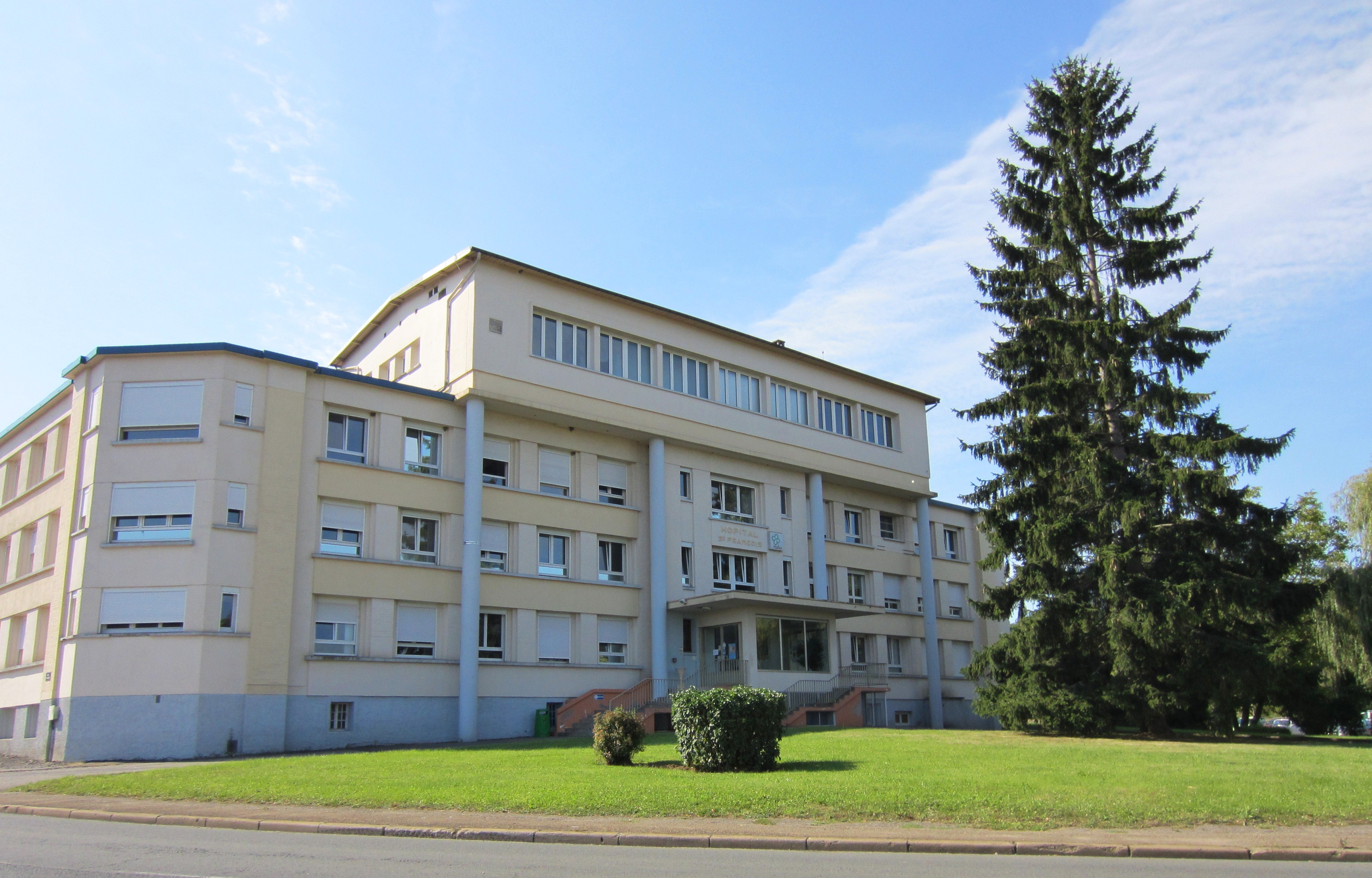 Description hopital Marange Silvange Date2 September 2011Sourcemon appareil photoAuthorAimelaimePermission (Reusing this file) hopital Marange Silvange